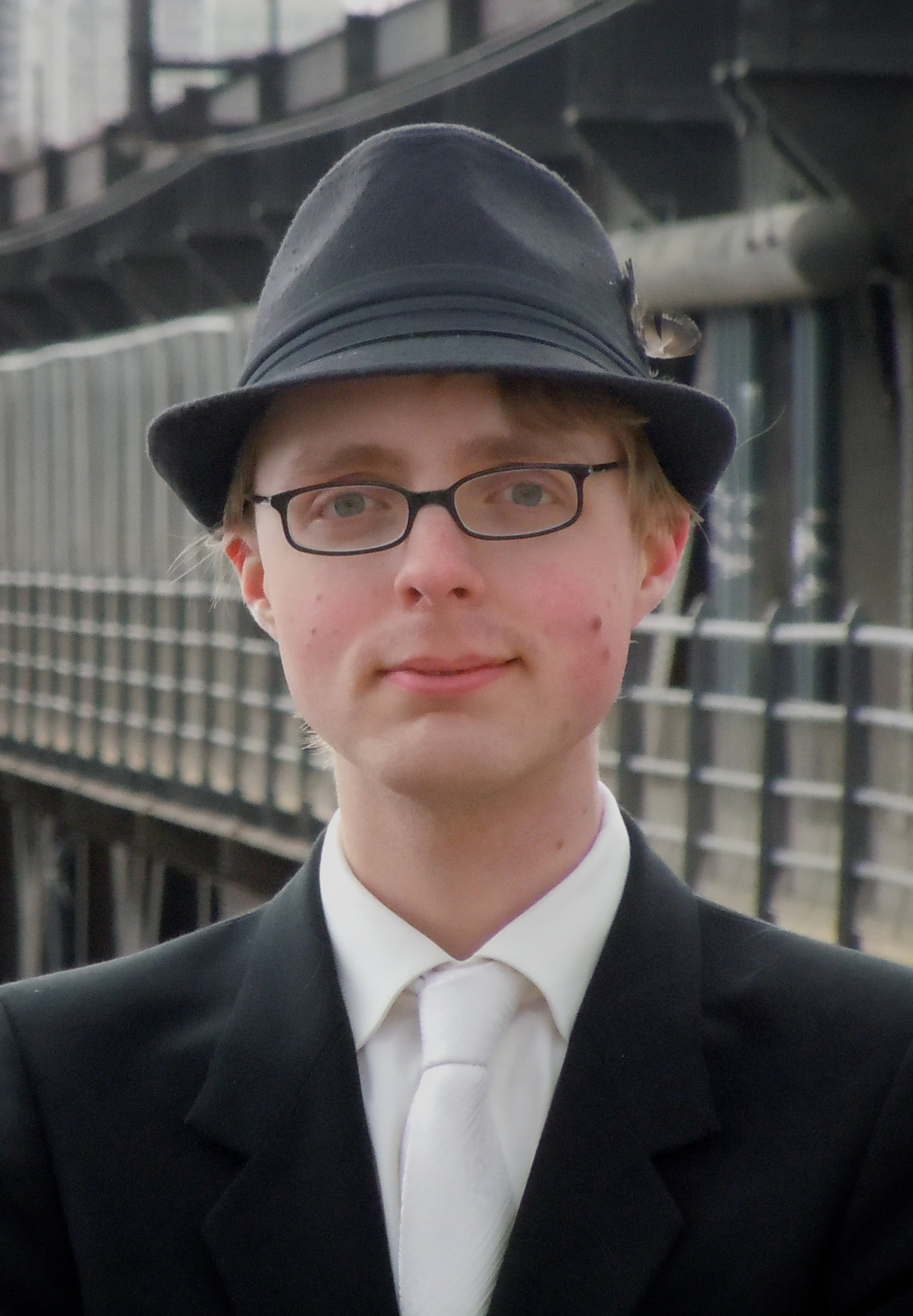 Pirate Party leader Mikkel Paulson (publicity photo)